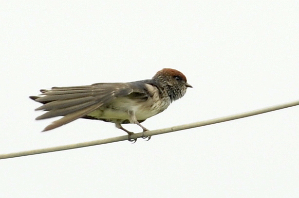 Streak-throated Swallow near Jodhpur, Rajasthan, India